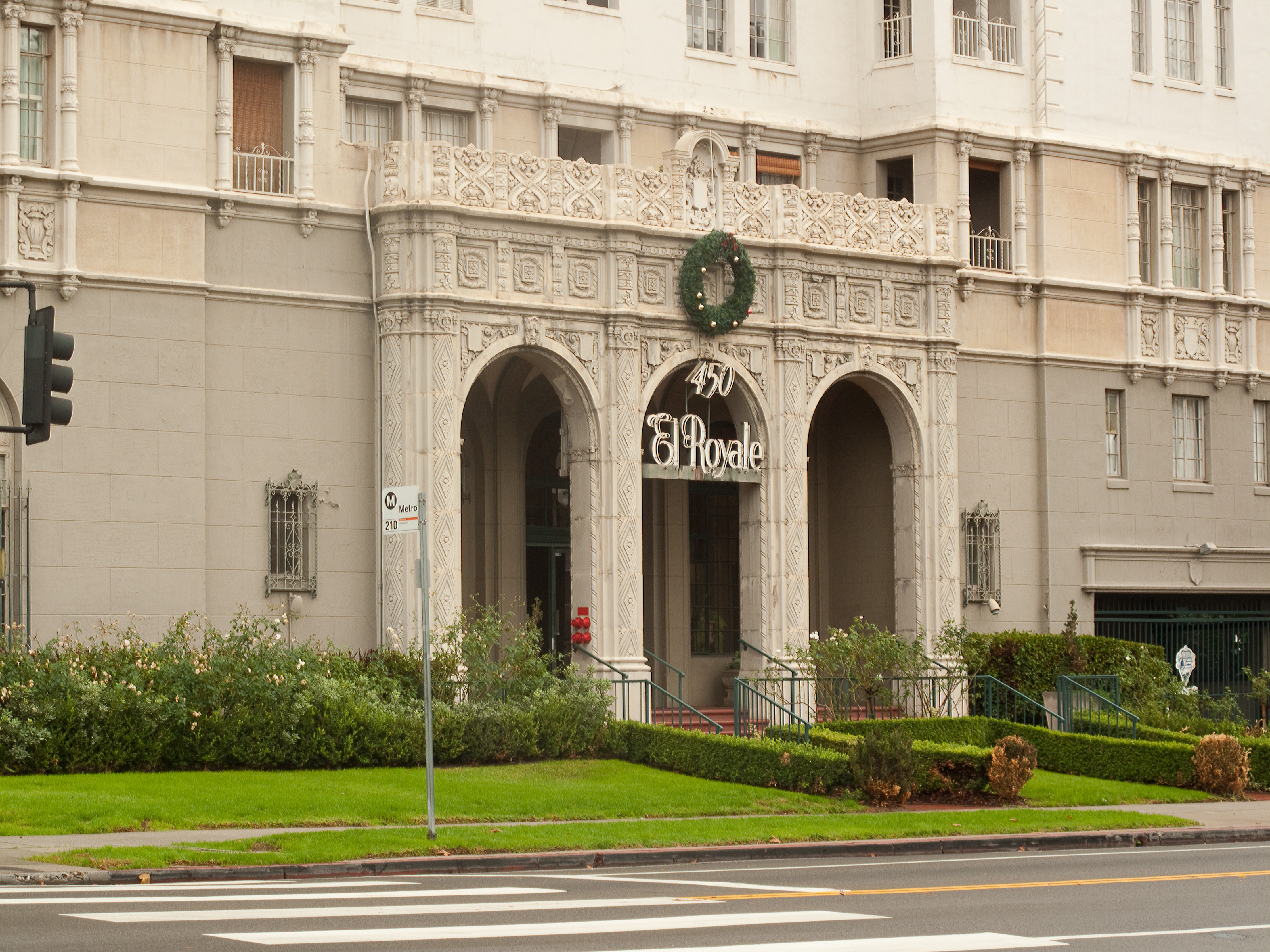 Front of El Royale Apartments,450 N. Rossmore Ave., Los Angeles, CA 90004